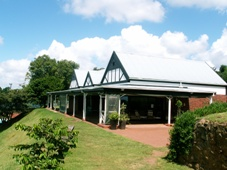 The Robin Savory Pavilion